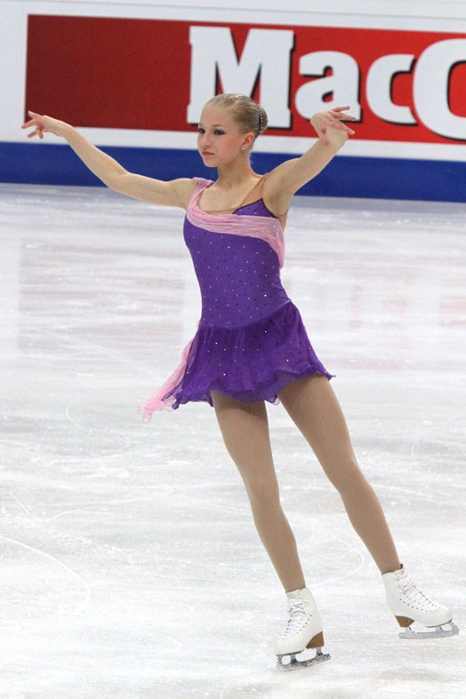 Juulia Turkkila at the 2011 European Figure Skating Championships (Short program)